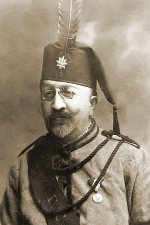 Kyrył Trylowśkyj, Ukrainian politician, lawyer in Kolomyja, MP of Austrian Parliament (1907-1918) and Sejm of Galicia